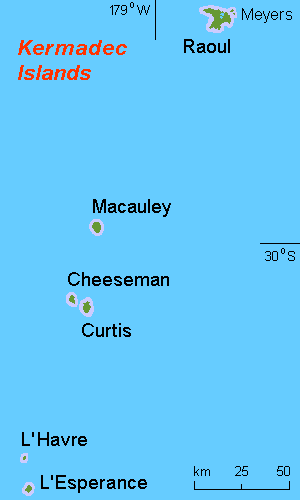 Map (rough) of Kermadec islands, New Zealand, own work composed from various mapreferences